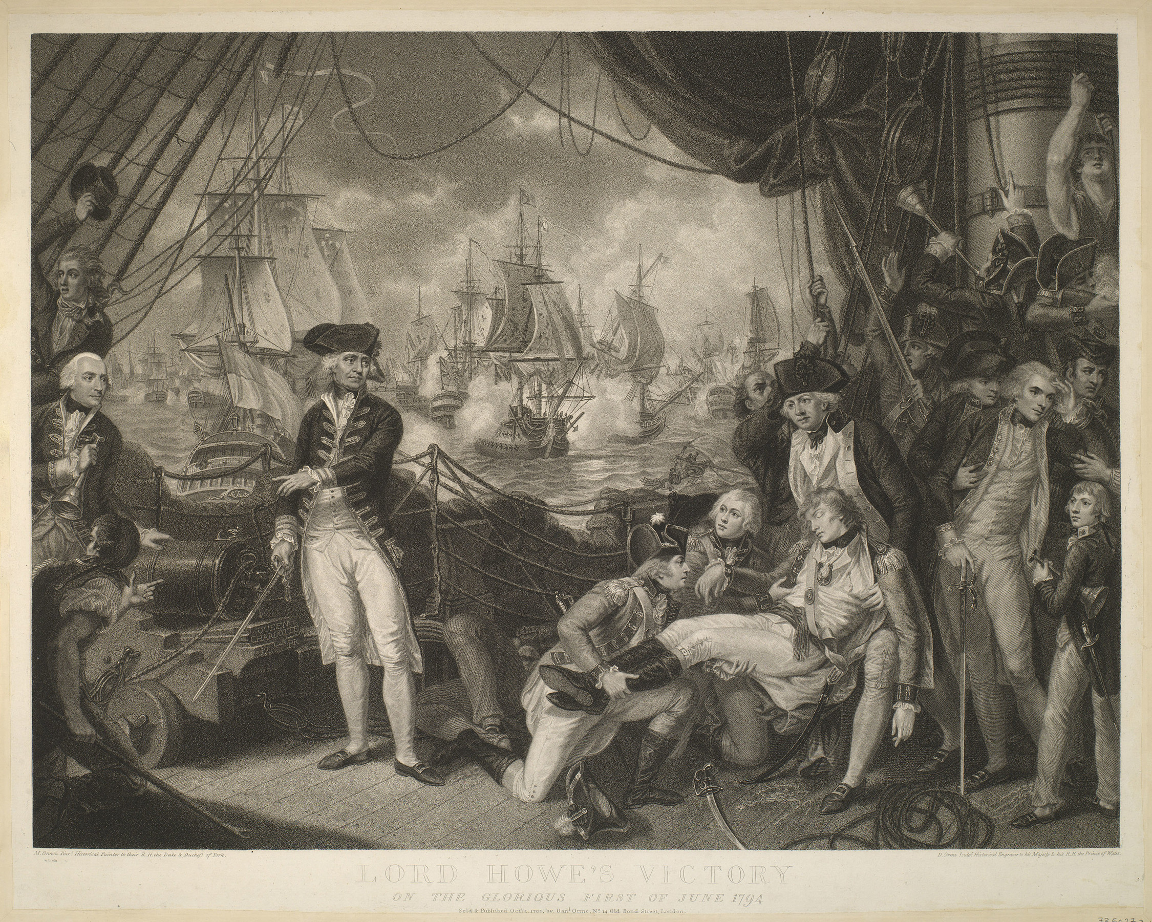 The CELEBRATED VICTORY obtained by the British Fleet under the Command of Earl Howe, over The French Fleet on The Glorious First of June, 1794.